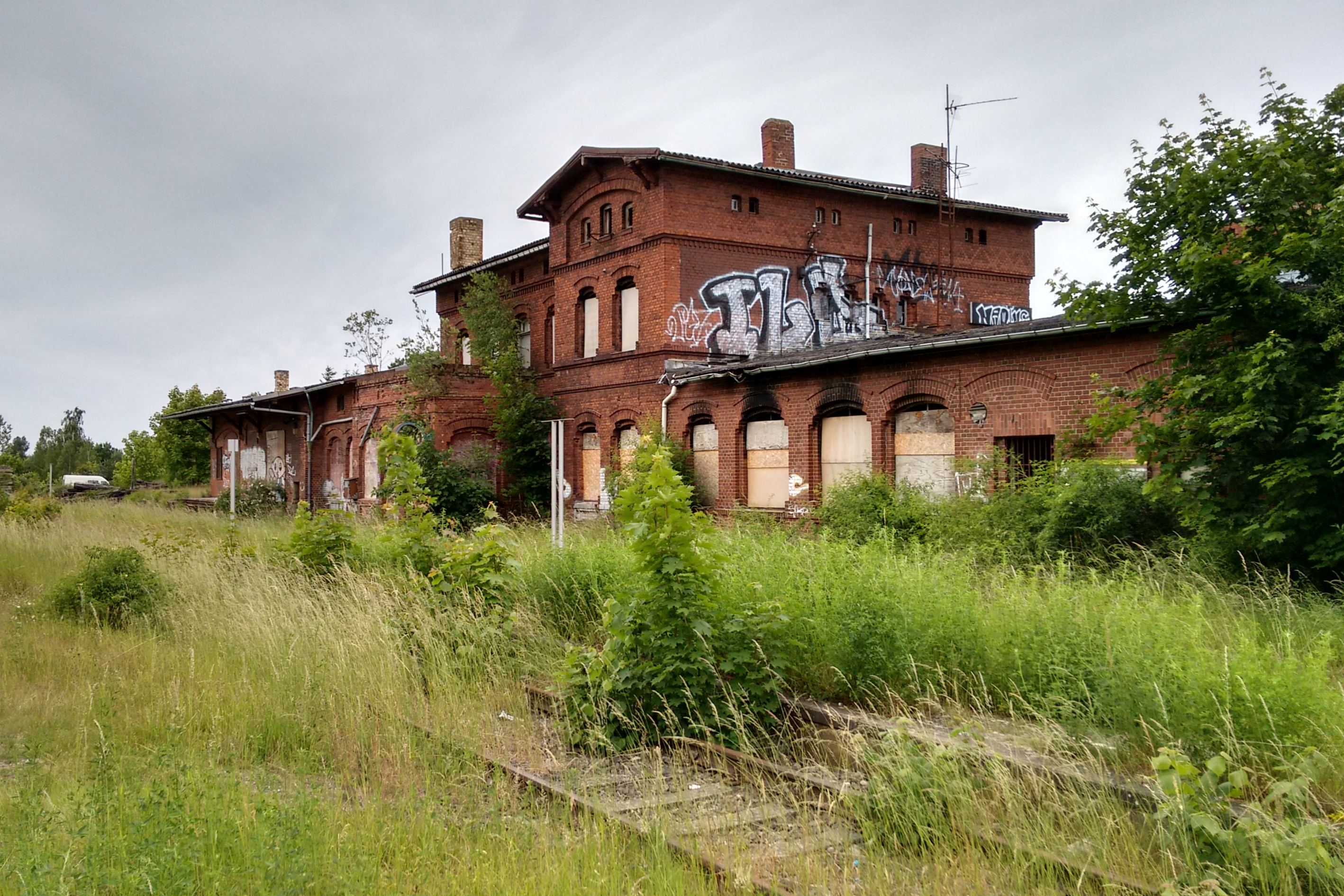 Former railway station in Beetzendorf in Saxony-Anhalt, Germany